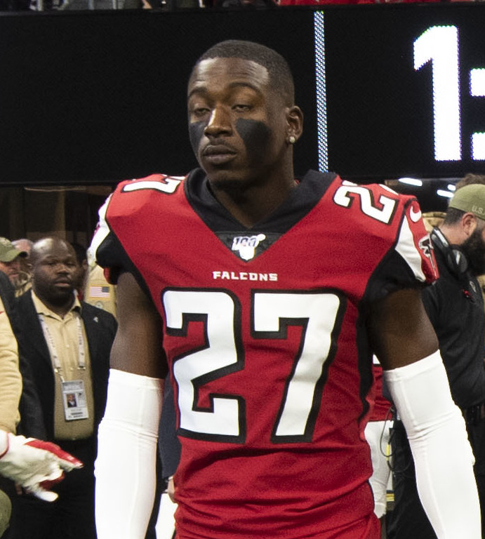 Defense Secretary Mark T. Esper attends the NFL’s Atlanta Falcons vs. Tampa Bay Buccaneers Salute to Service game, Atlanta, Georgia, Nov. 24, 2019.